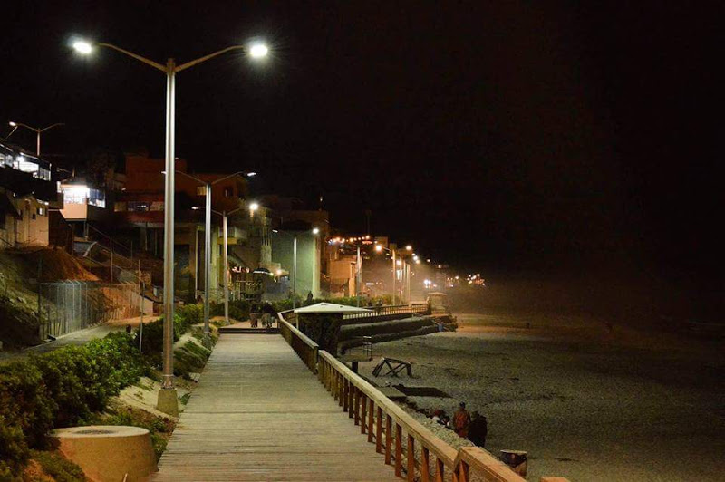 Night view of the Tijuana´s pier